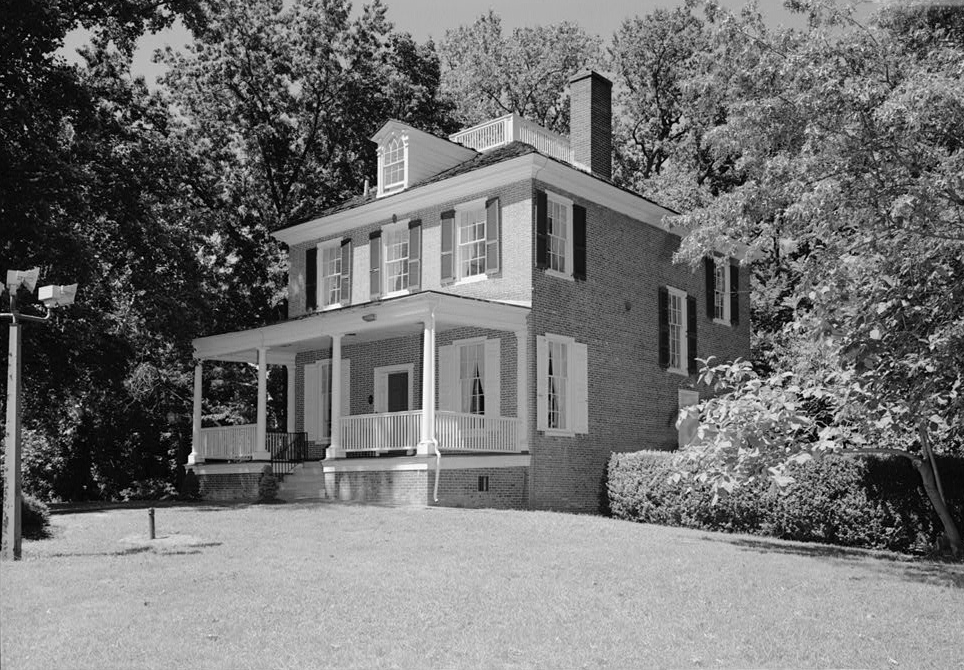 Ormiston, a mansion in Fairmount Park, Philadelphia, Pennsylvania Significance: Erected by Edward Burd in 1798, Ormiston is a well-preserved part of the villa group that developed along Edgeley Point Lane in the eighteenth and early nineteenth centuries. Along with similar properties, Burd's estate was purchased by the City of Philadelphia during the mid-nineteenth-century formation of Fairmount Park.